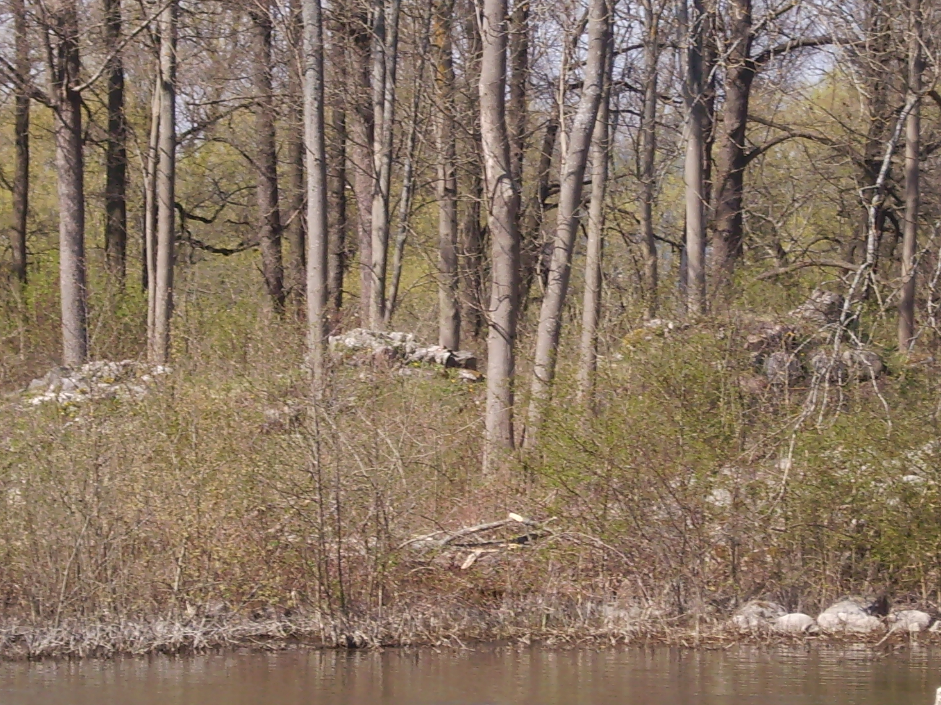 Photo by Harri Blomberg.